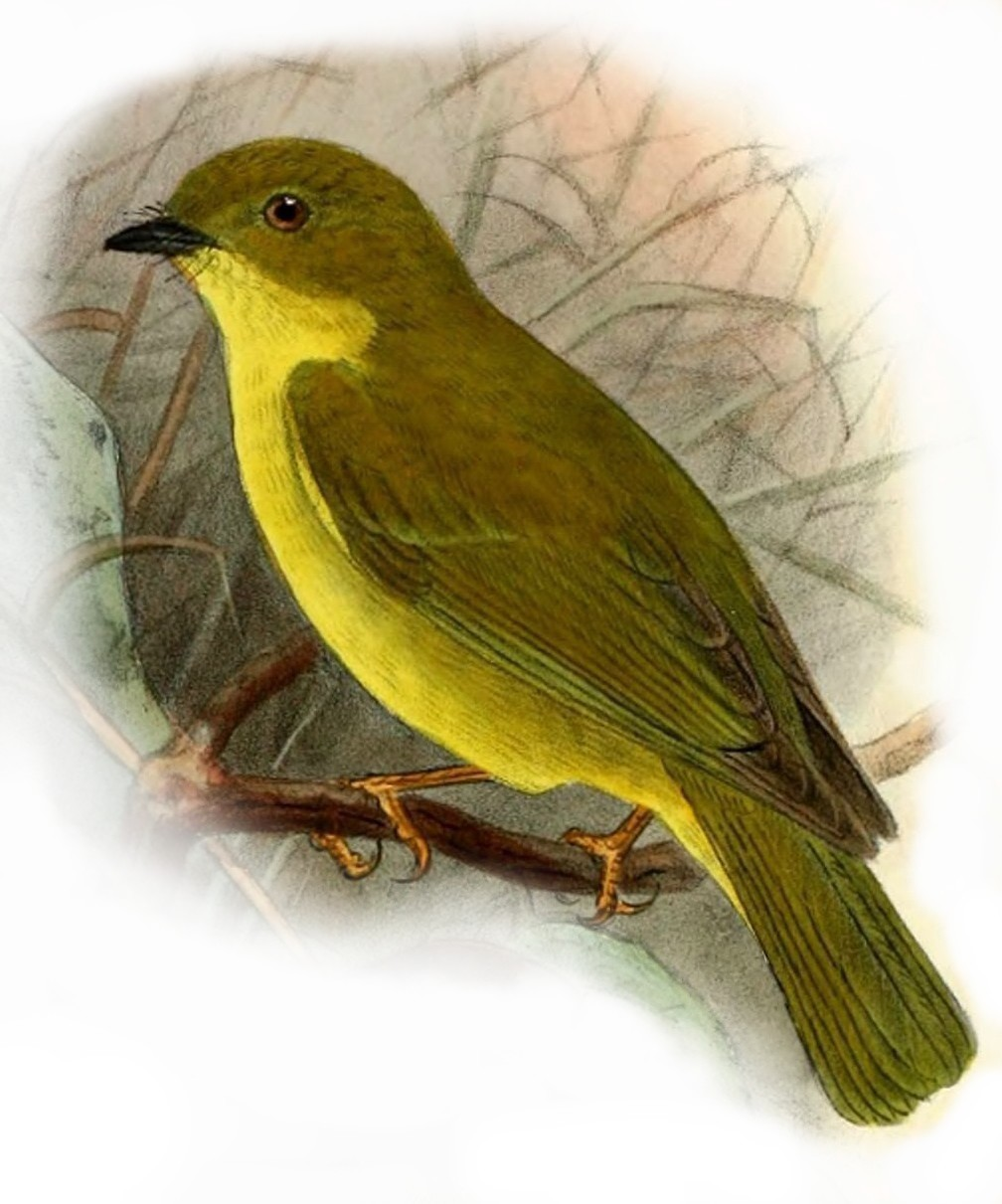 Microeca papuana Mey. = Microeca papuana A.B.Meyer, 1875 (Canary Flyrobin)